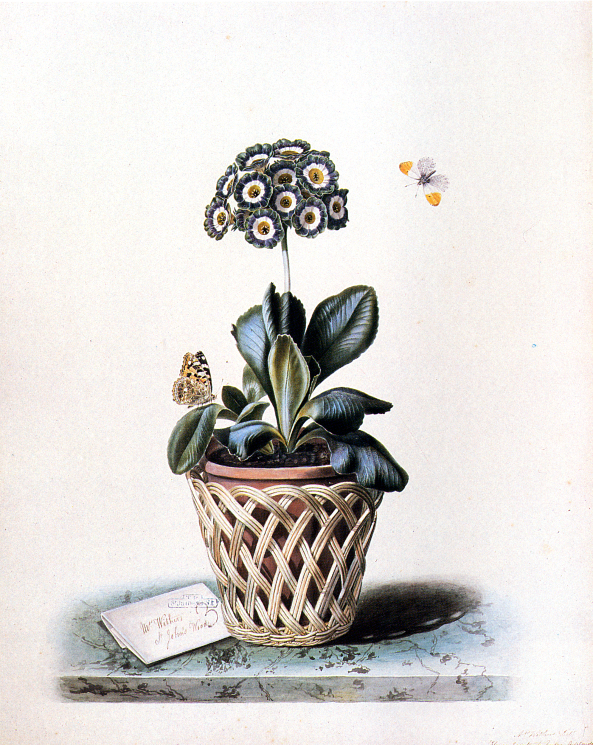 flower painter to Queen Adelaide and Mrs Withers St. John's Wood on a trompe l'oeil letter